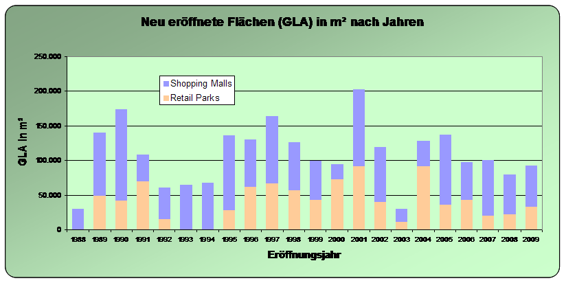 Neu eröffnete EKZ und FMZ Flächen nach Jahren (beginnend 1988)